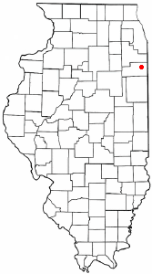 Category:Illinois city locator maps